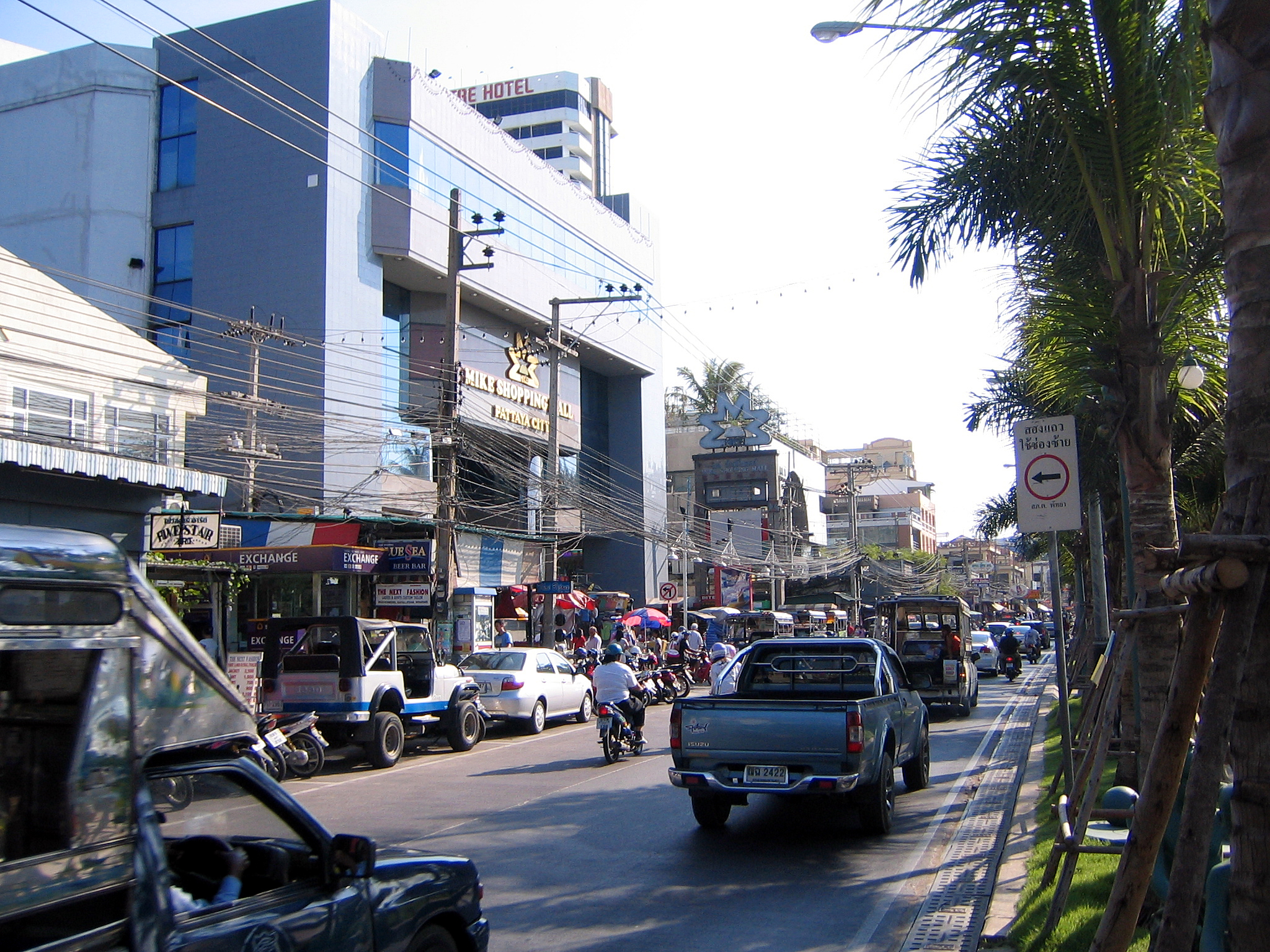 Pattaya Beach Road with Mike Sopping Mall